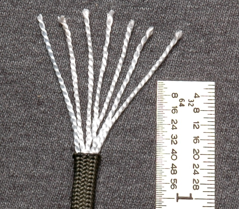 Olive drab Parachute cord, purchased at a surplus store in the US. It was labeled: "Rothco, "G.I. PLUS", Type III Commercial, Nylon Paracord, Made by a Certified US Gov't Contractor, 550 lb. Test, 7 Strand Core, 100% Nylon, Made in the USA". The sheath (mantle) is braided from 32 strands and the core (kern) made up of seven two-ply yarns. Thus it does not appear to conform strictly to MIL-C-5040H Type III, which seems to specify three-ply yarns for the core. It is possible, however, that the two plies contain a similar amount of nylon as the equivalent three-ply yarns and behave similarly. The pictured scale is in inches. NOTE: The scale was contrast enhanced for better visibility in thumbnail size image.